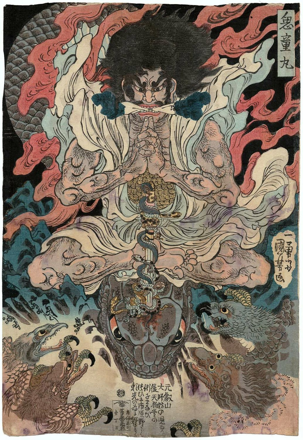 Kidōmaru